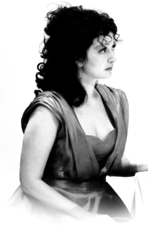 Elena Baramova